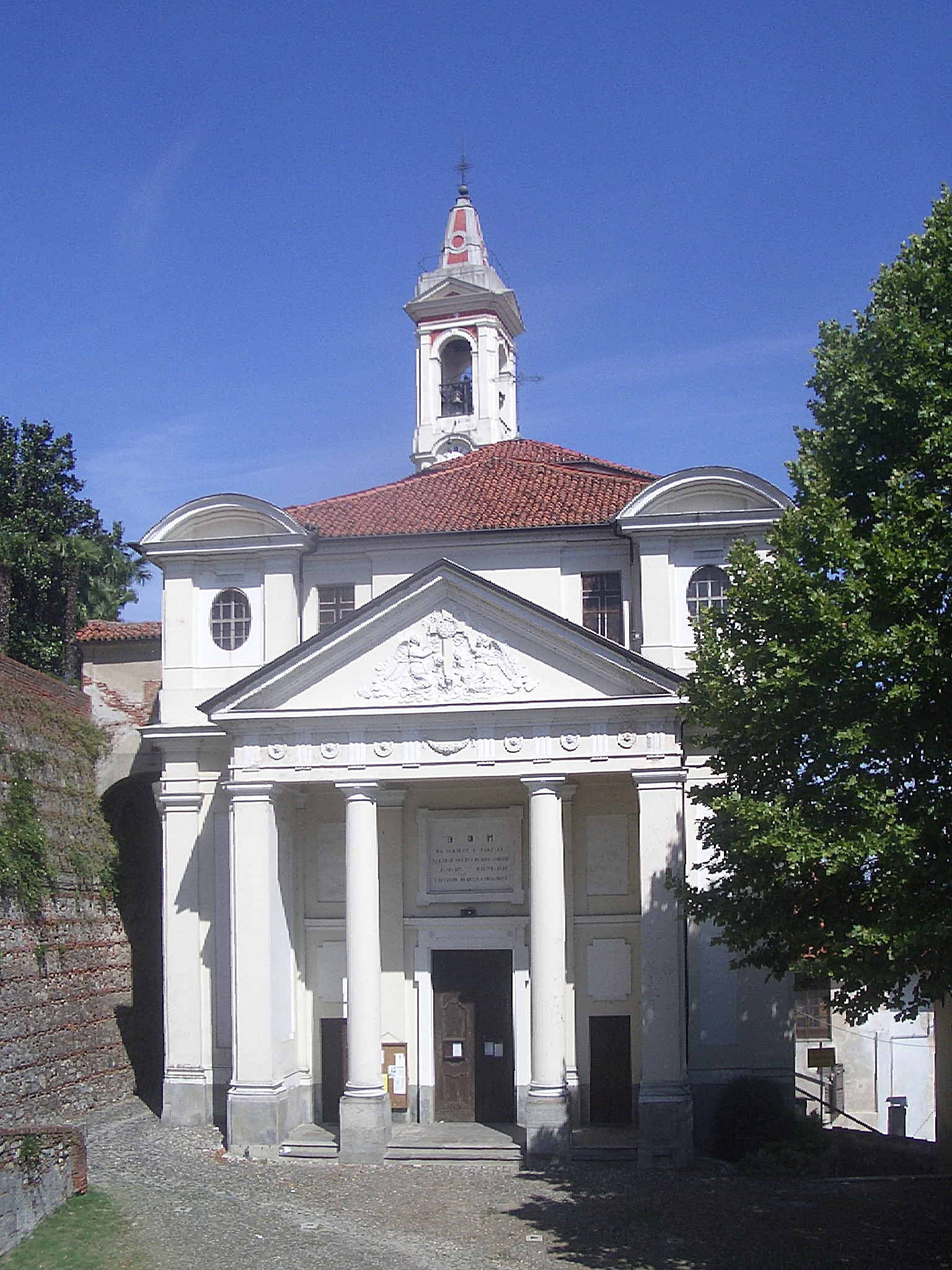 Azeglio, the parish church dedicated to St. Martin of Tours, 1786-90